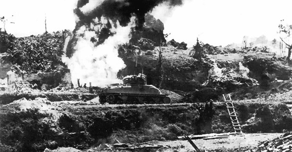 Blowtorch-flame sears a Japanese-held cave.